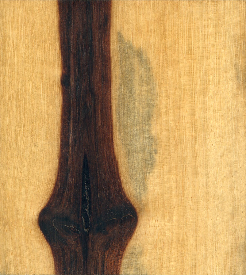 wood of Platymiscium pleiostachyum, light sapwood, brown heartwood, longitudinal section